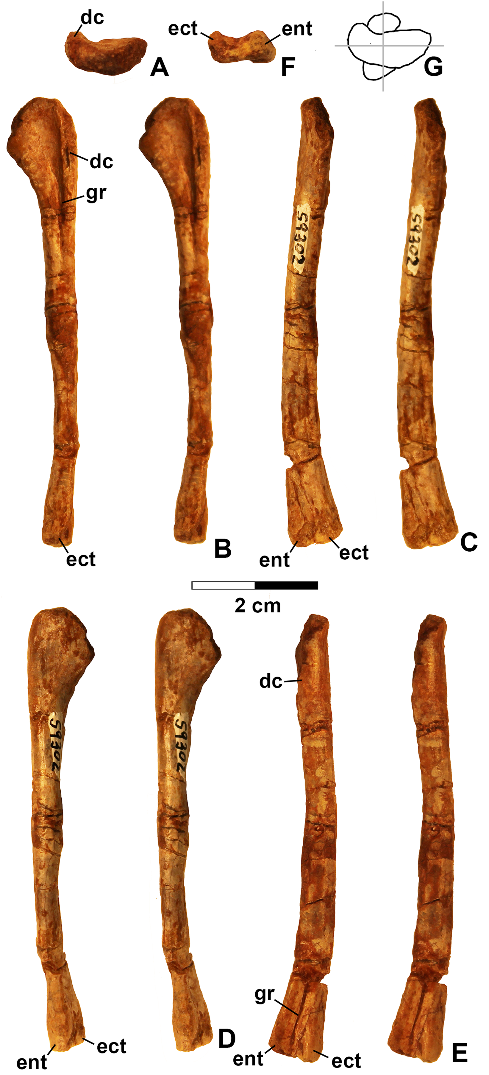 Figure 13: Kwanasaurus williamparkeri left humerus (DMNH EPV.59302) stereopairs. (A) Proximal view (anterior side facing up), (B) anterior view, (C) medial view, (D) posterior view, (E) lateral view, (F) distal view (anterior side facing up), (G) drawing of overlapping proximal and distal ends showing degree of torsion. Scale bar = 2 cm. dc = deltopectoral crest ect = ectepicondyle ent = entepicondyle gr = groove